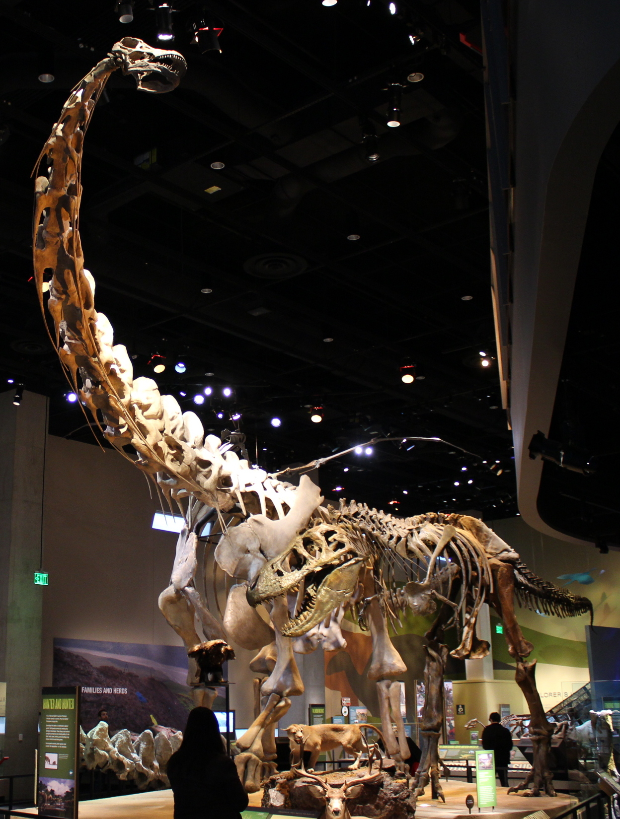 Reconstructed and restored skeletons of Tyrannosaurus rex harassing a Alamosaurus sanjuanensis.